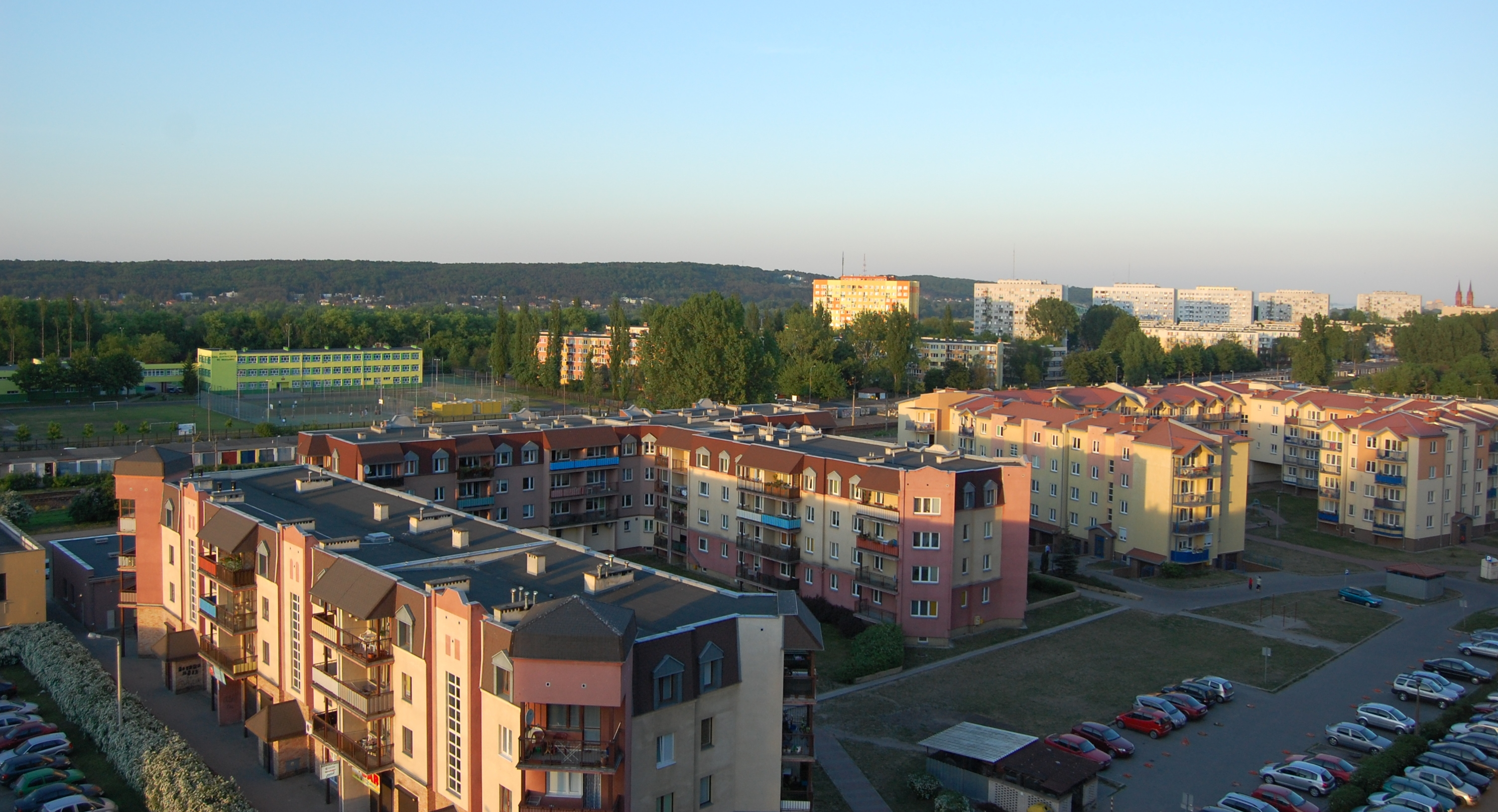 Zazamcze, Włocławek, Poland